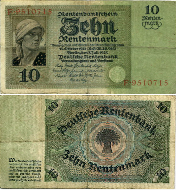 10 Rentenmark from 1925-7-3